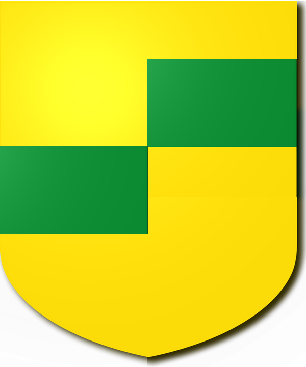 salonesi family shield